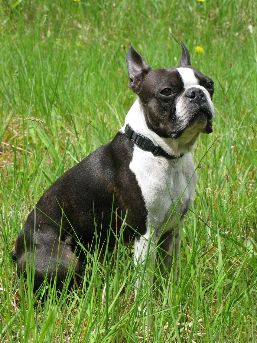 Vrai Gentleman du Grand Fresnoy, Male Boston Terrier.